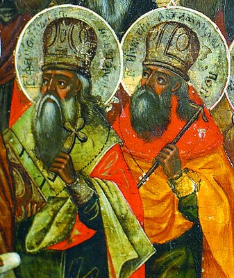 St. Theophilus Novhorodskyy and the Reverend Ignatius Crypt. Fragment of icon "Cathedral of the Kiev-Pechersk saints." East. thu. XVIII century. (1771?) (Irkutsk region. Art Museum)